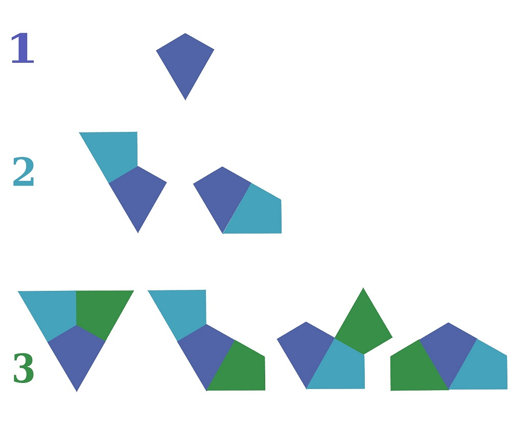 Polykyte forms - all the different shapes you can make with n kites taken from a trihexegonal format.